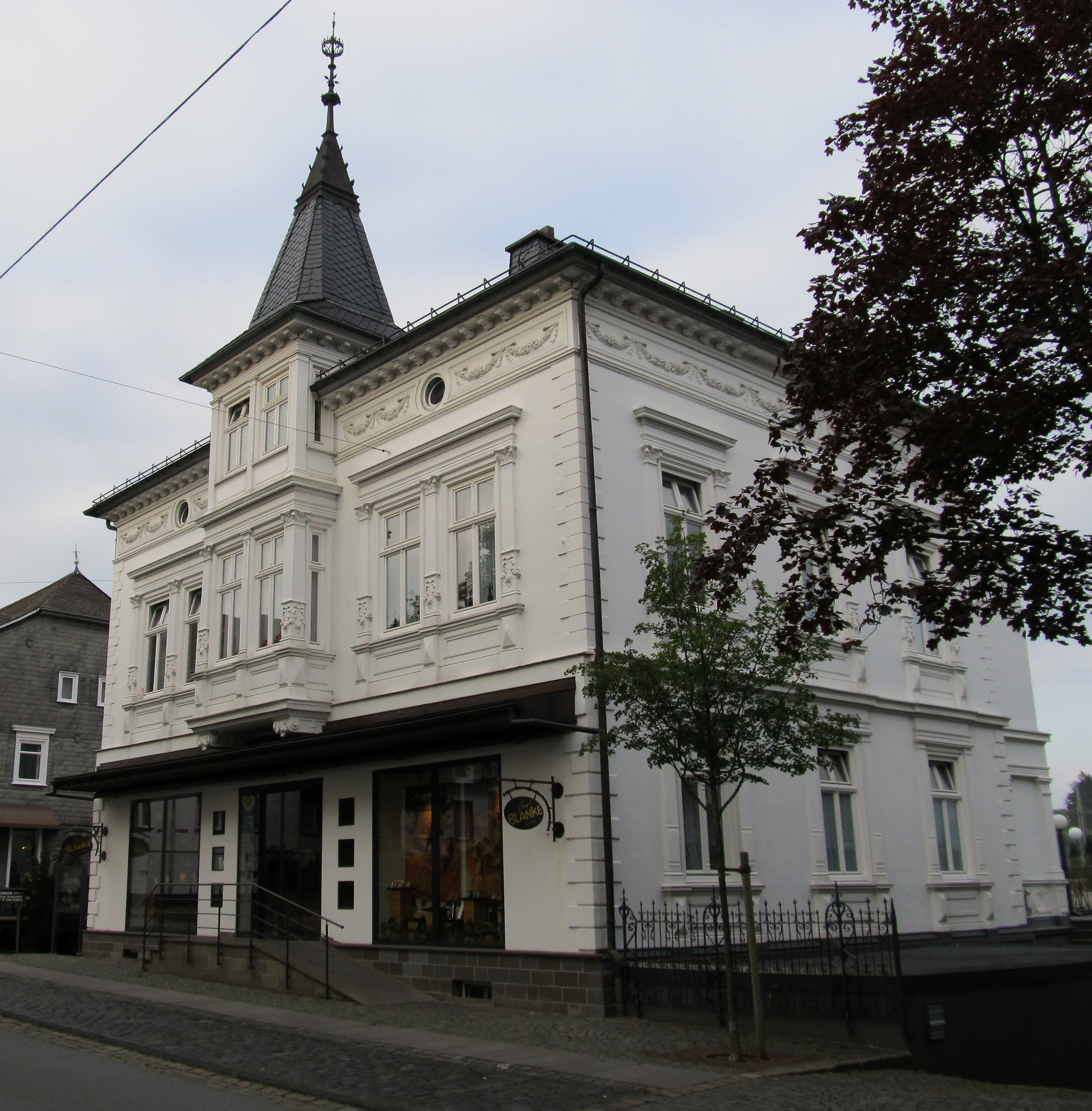 This is a photograph of an architectural monument., no. 128Historisches Wohn- und Geschäftshaus, Oststraße 57